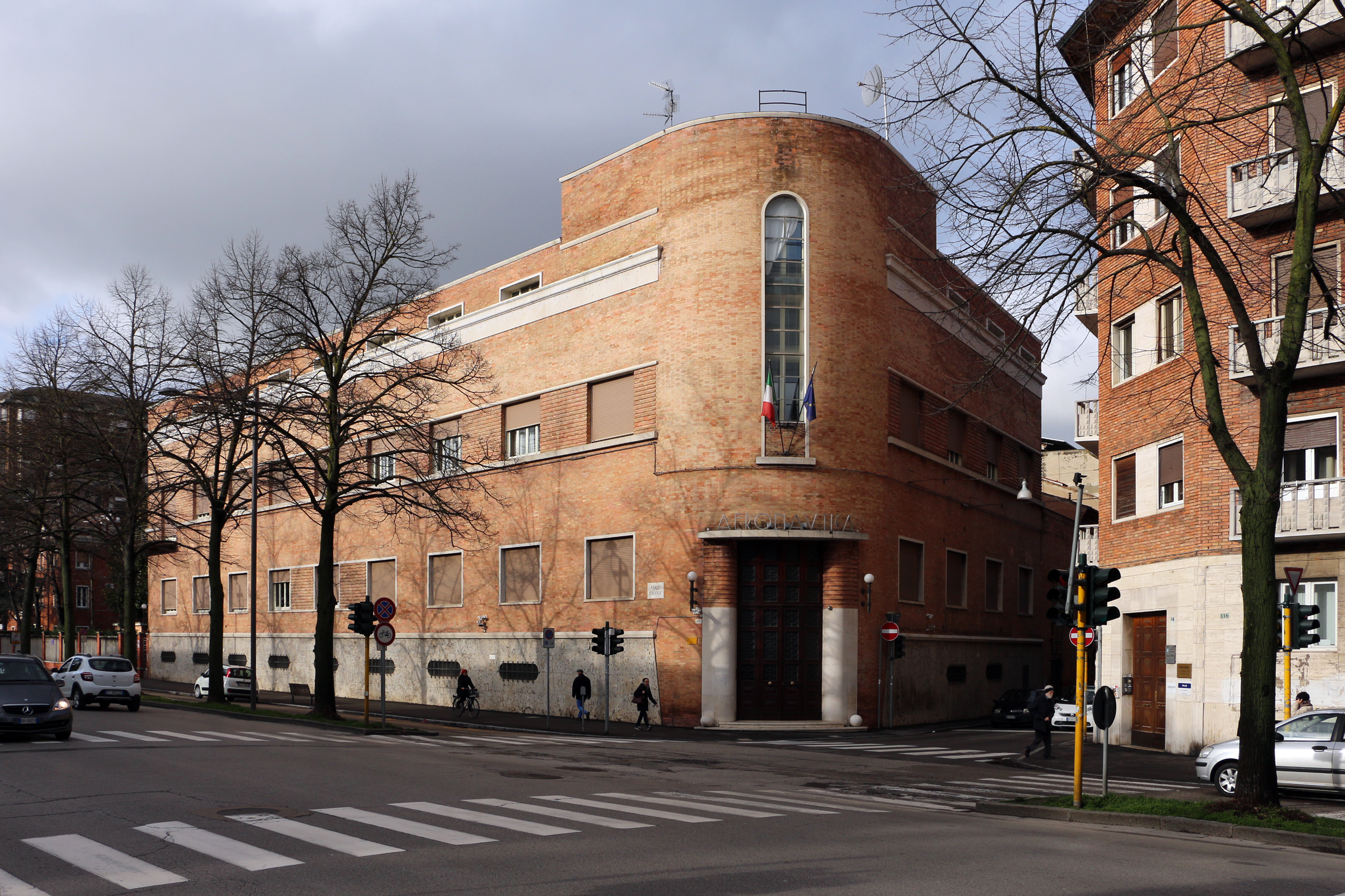 Palazzo dell'Aeronautica (Ferrara)